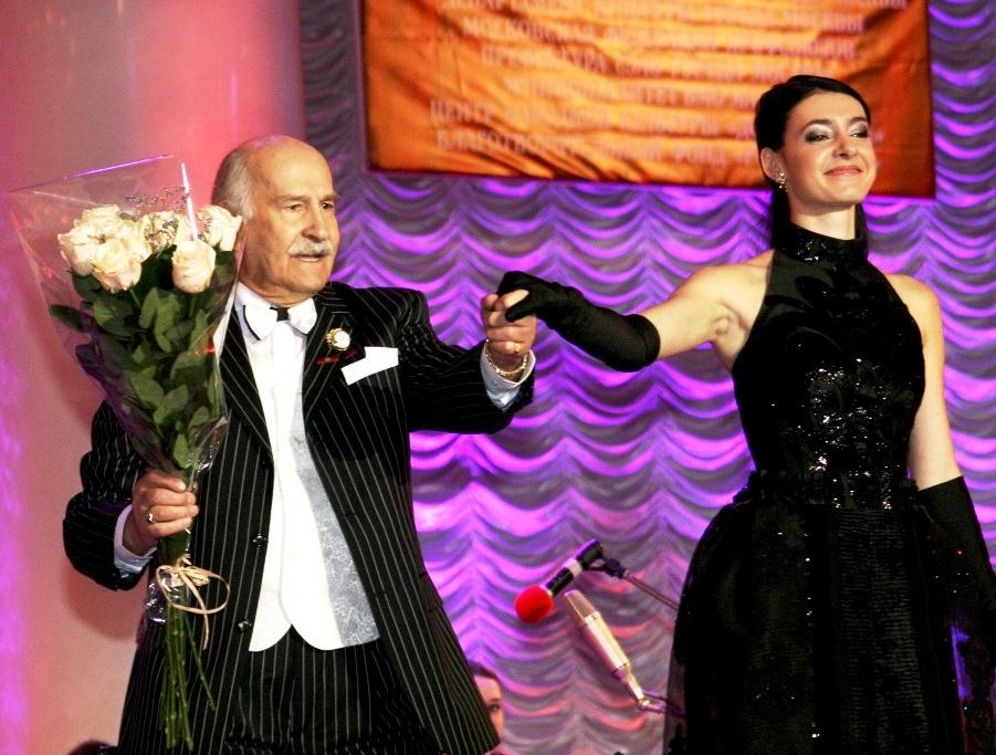 Romansiada